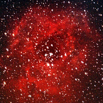 The Rosette Nebula (also known as NGC 2237) is a large, circular H II region located near one end of a giant molecular cloud in the Monoceros constellation. Guiding was done manually using a guidescope. The photo was taken using the following equipement: Telescope: Vixen 130mm (5,1") f/5,5 Newton on a Super Polaris mount Film: Kodak Multispeed / PJM-2 Exposure: 20 min. Processing: Removing of Vignetting (Radial Gradient), Removing of Uneven background due to light leak (linear Gradient)